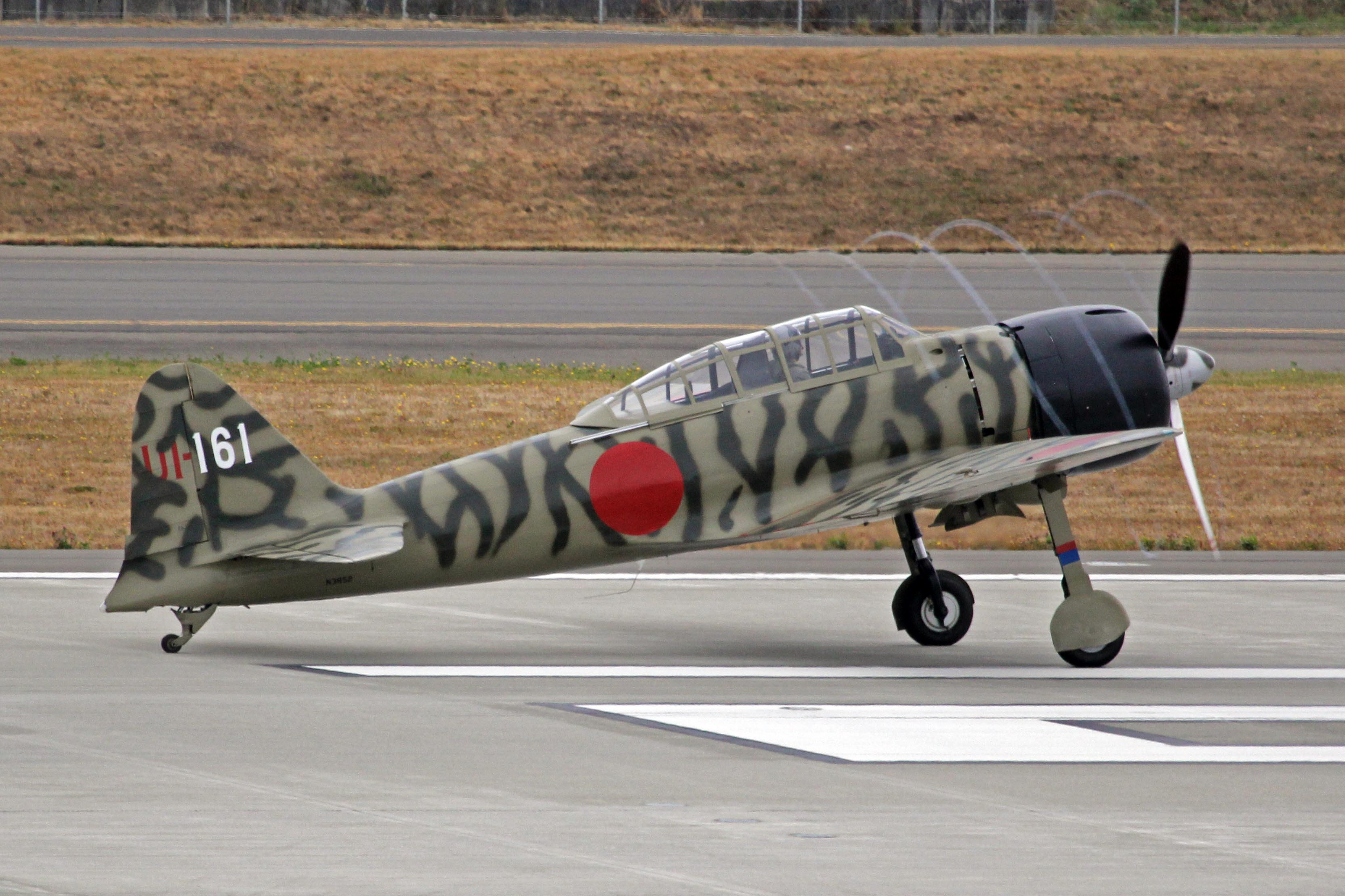 Vortex spiral coming off the propeller.